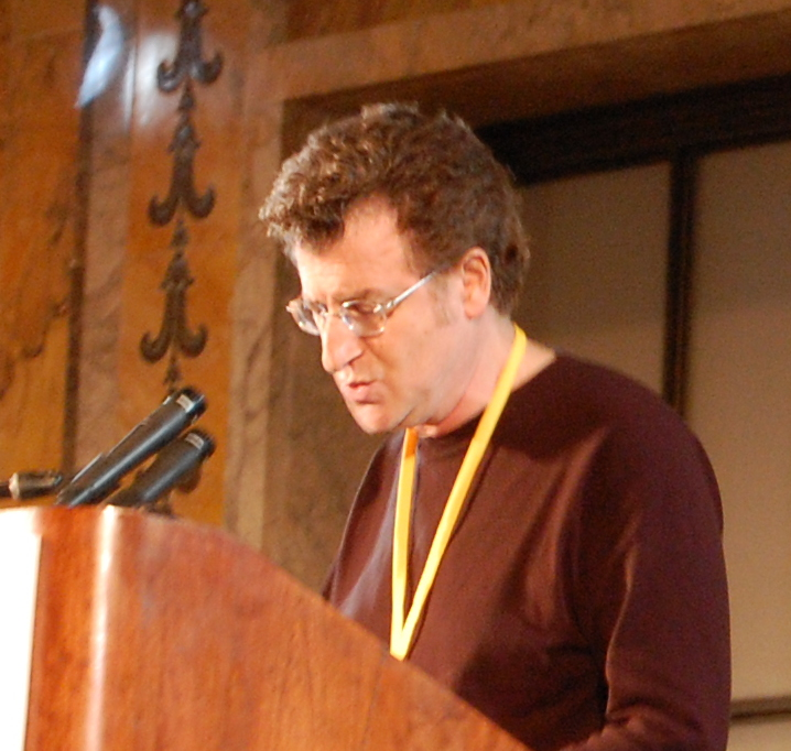 Alfredo Jaar in The Creative Time Summit: Revolutions in Public Practice